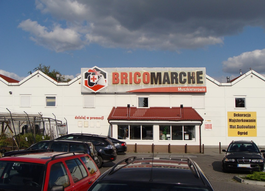 Supermarket Bricomarche w Śremie